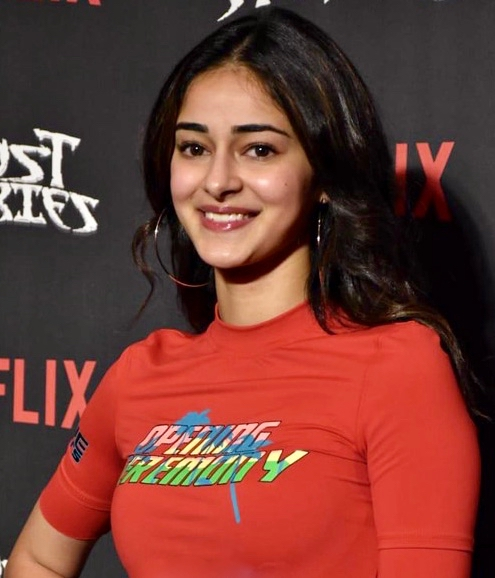 Ananya Panday at the screening of Ghost Stories in 2019